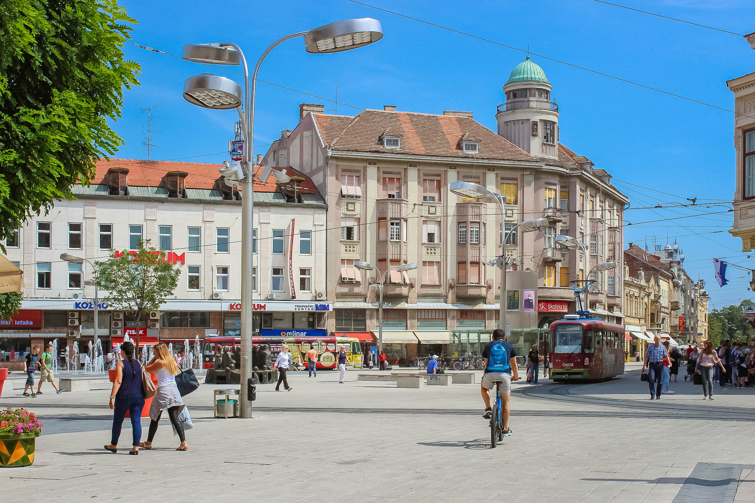 Square